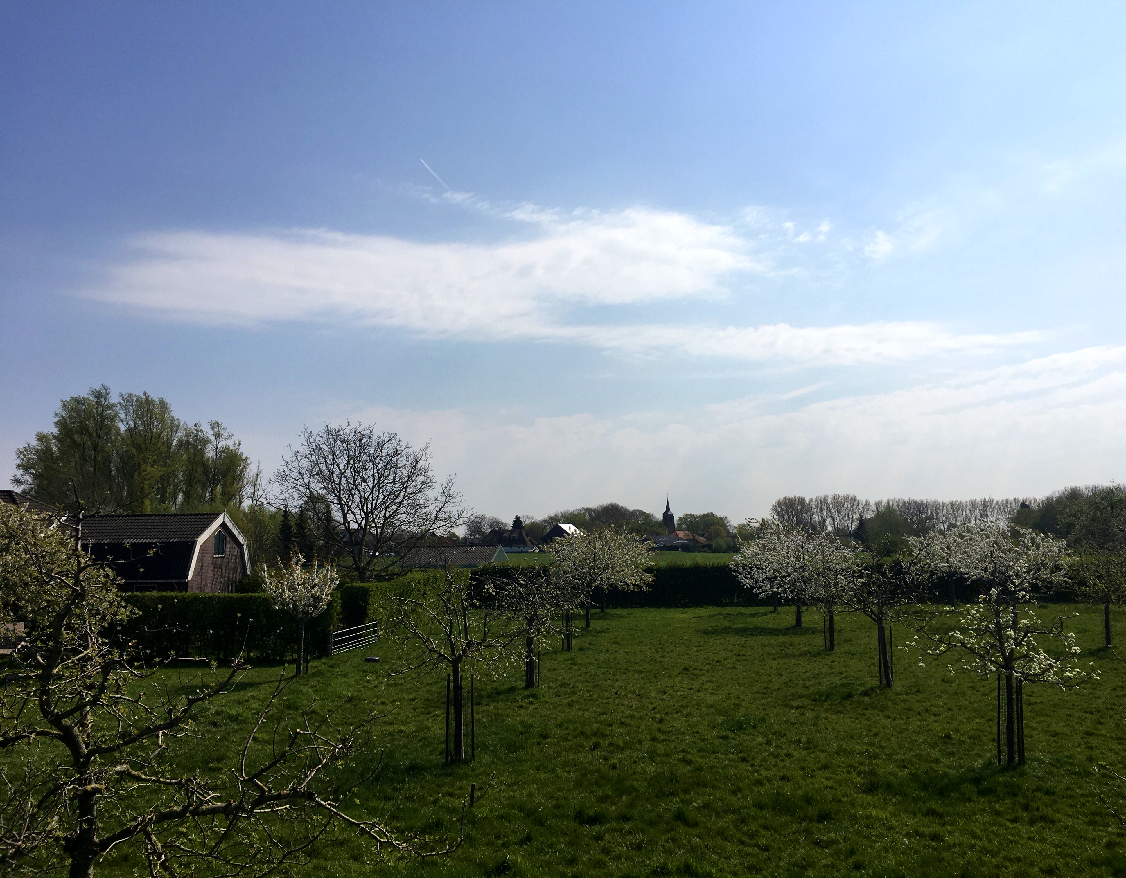 Enspijk (Betuwe, Netherlands) during springtime